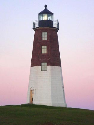 Point Judith Lighthouse (Point Judith, RI). Taken on September 15, 2001 by Greg Kullberg, courtesy of